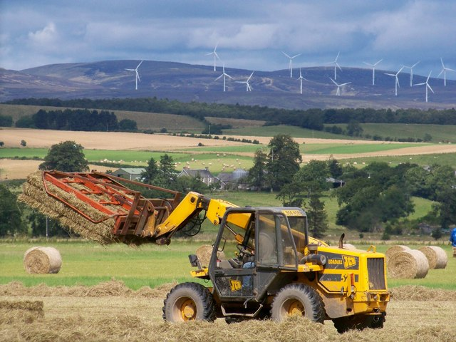 Stacking Square Bales. A JCB Loadall stacking square bales beside Poldar Moss.